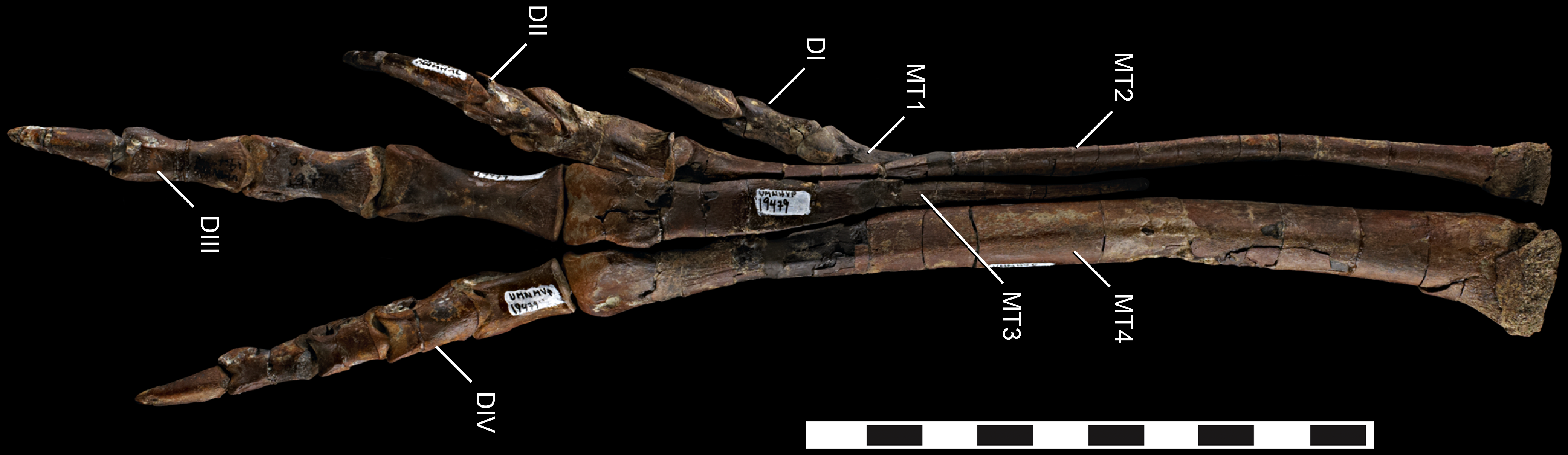 Articulated pes of Talos sampsoni (UMNH VP 19479). Digit one reversed from right pes. Abbreviations: DI, digit one; DII, digit two; DIII, digit three; DIV, digit four; MT1, metatarsal one; MT2, metatarsal two; MT3 metatarsal three; MT4, metatarsal four. Scale bar equals 10 mm.